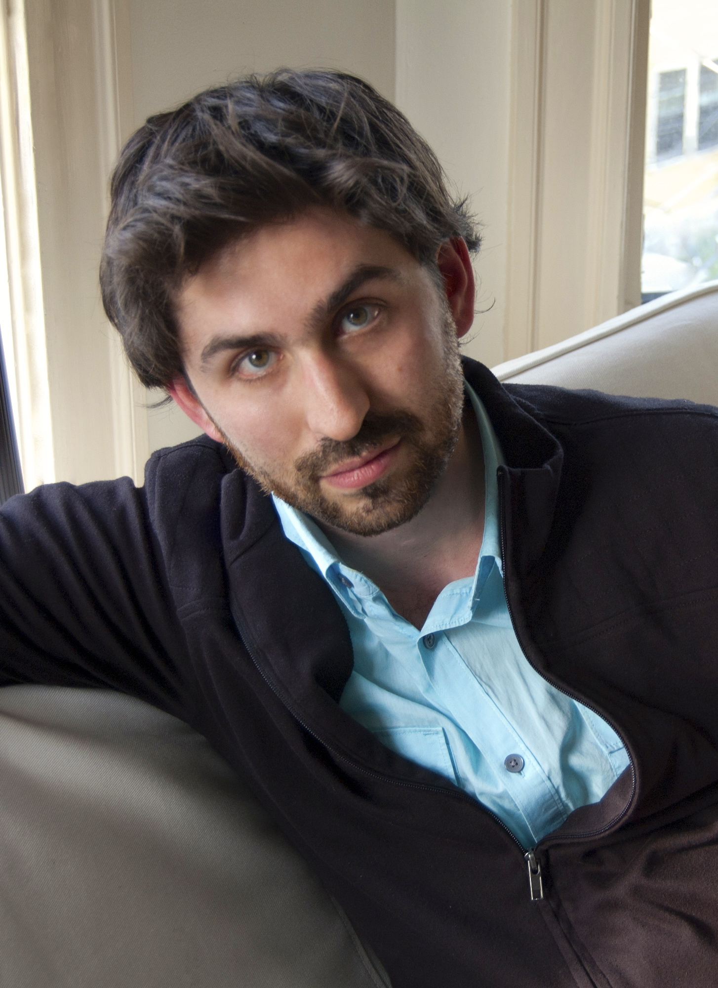 Matti Kovler's headshot